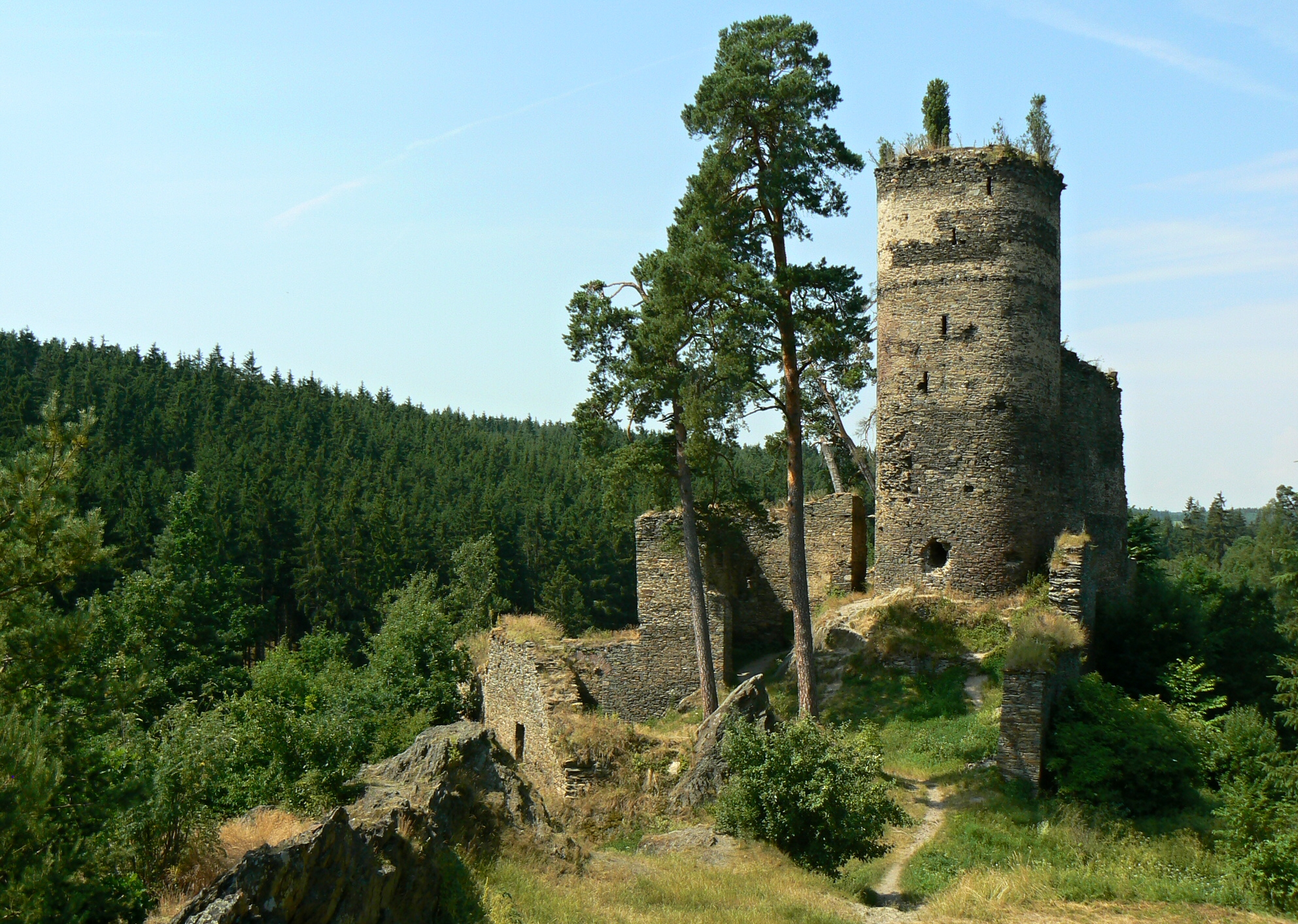 Ruins of the Gutštejn Castle between villages Okrouhlé Hradiště, Bezemín and Mydlovary in Plzeň-North District